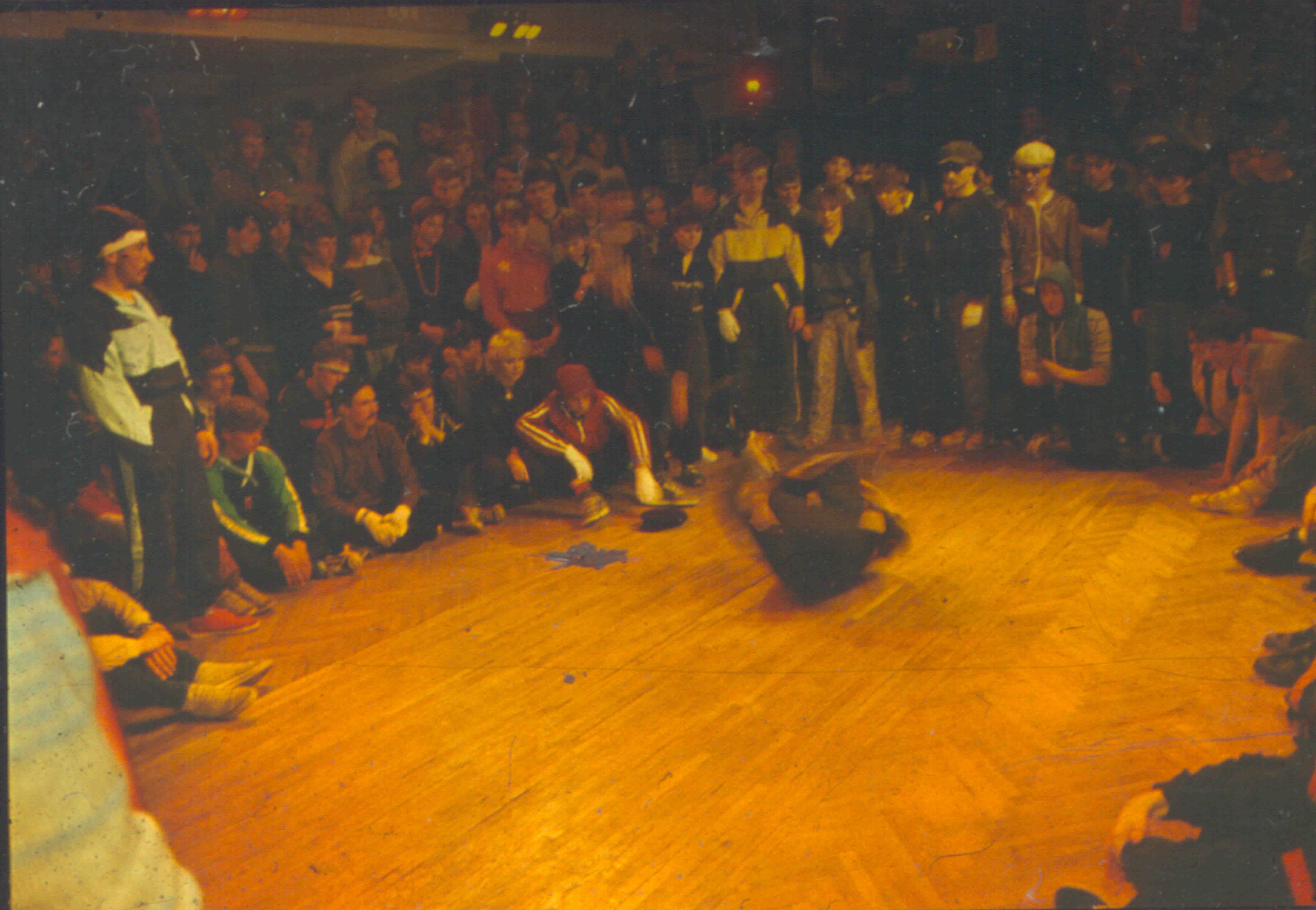 Break-battle in Riga, Latvia